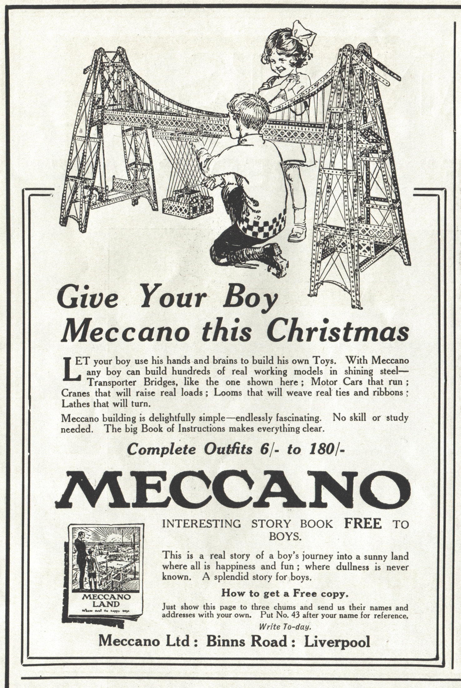 company advert in 1920 for Meccano.